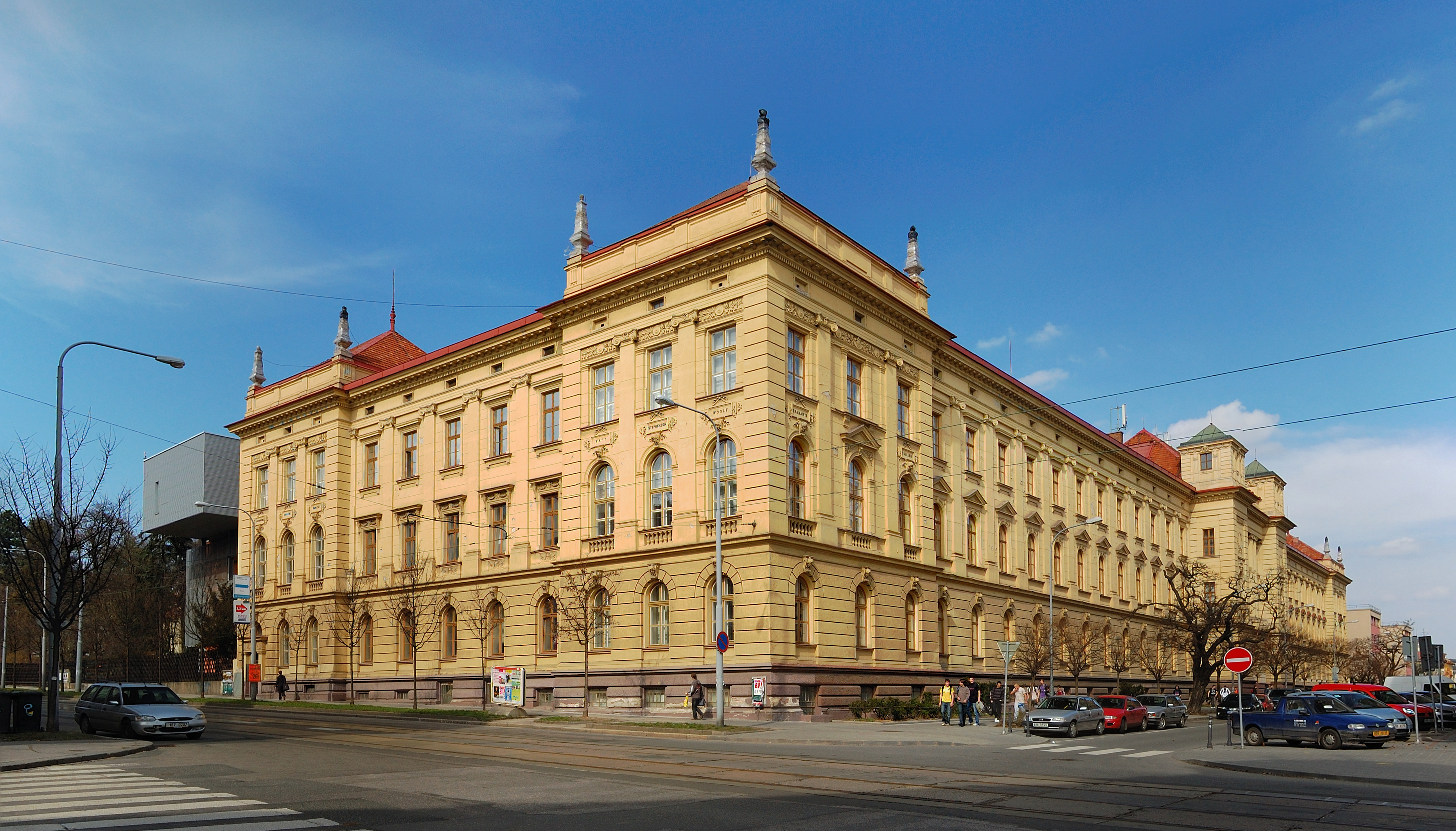 High school of industry, Brno, Czech Republic.